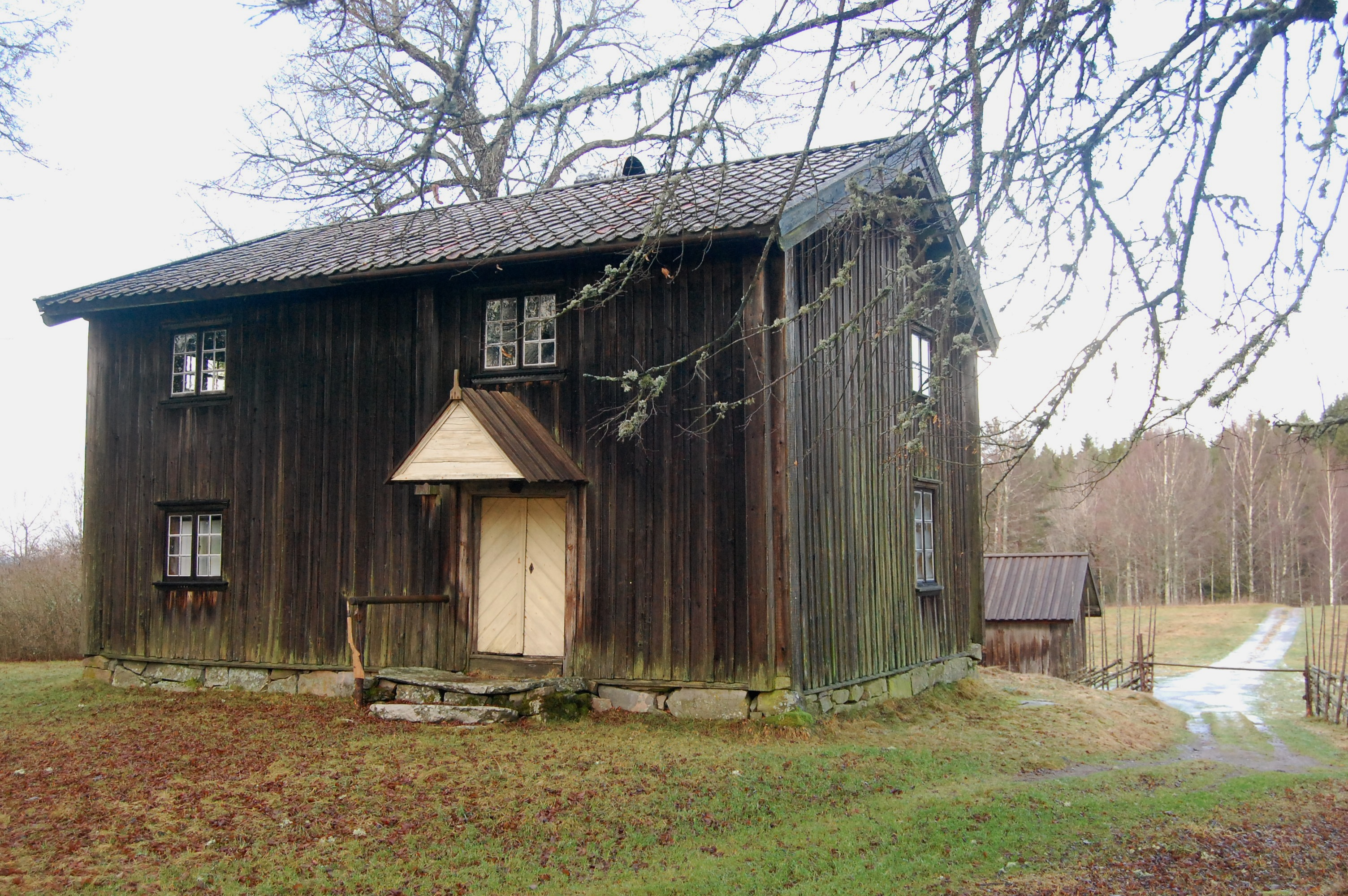 Old farmhouse from the 19th century from Dusserud, Töcksfors, Sweden.